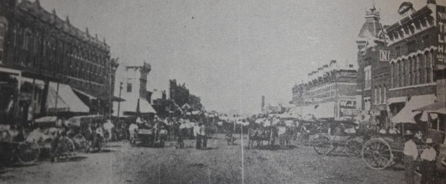 Photograph of Main Street in Norman, Oklahoma, taken during the summer of 1900.